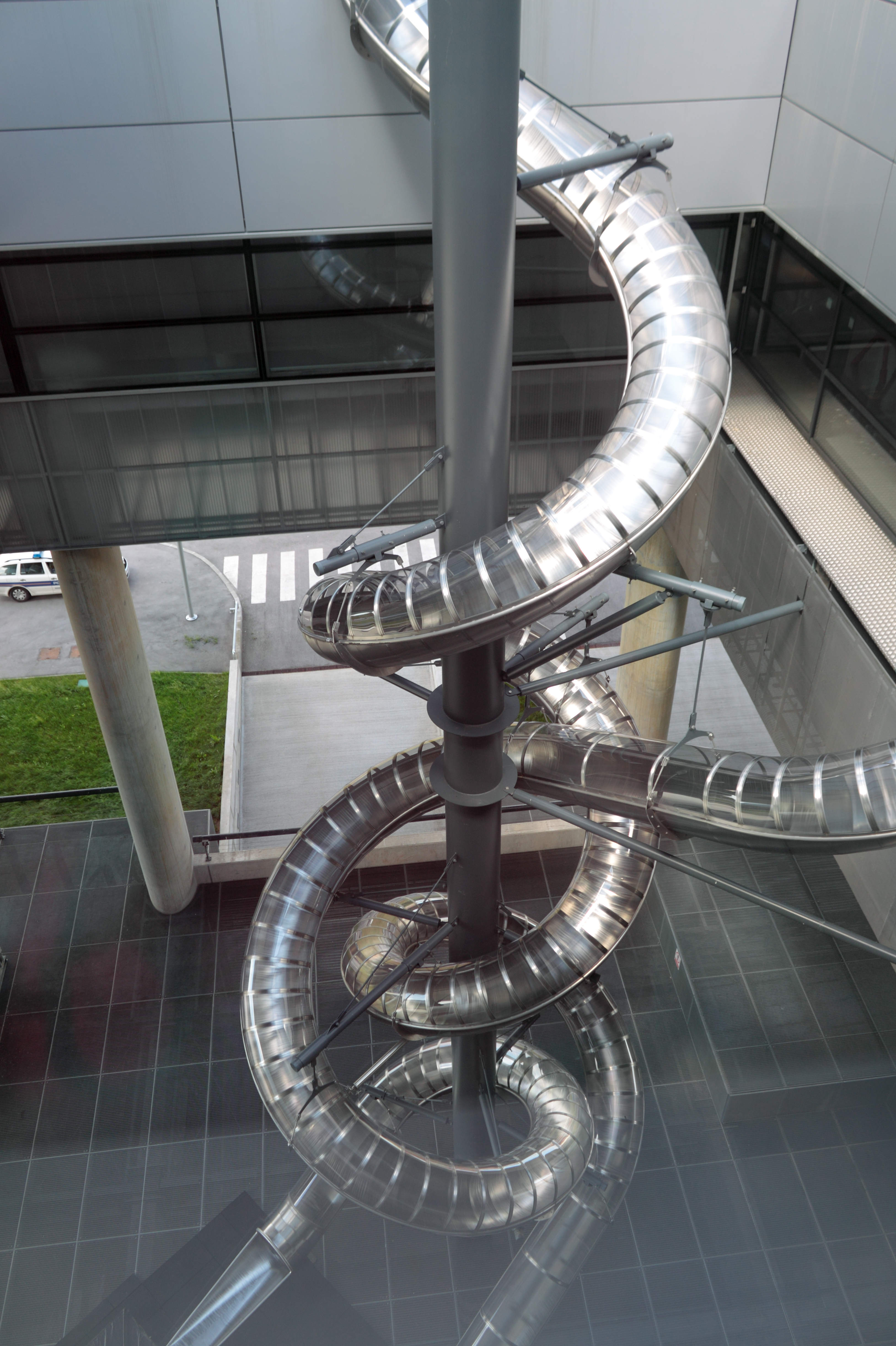 Museum of Contemporary Art, Zagreb: Double chute (two tube) to slide down from the two upper floors of the exhibition halls.